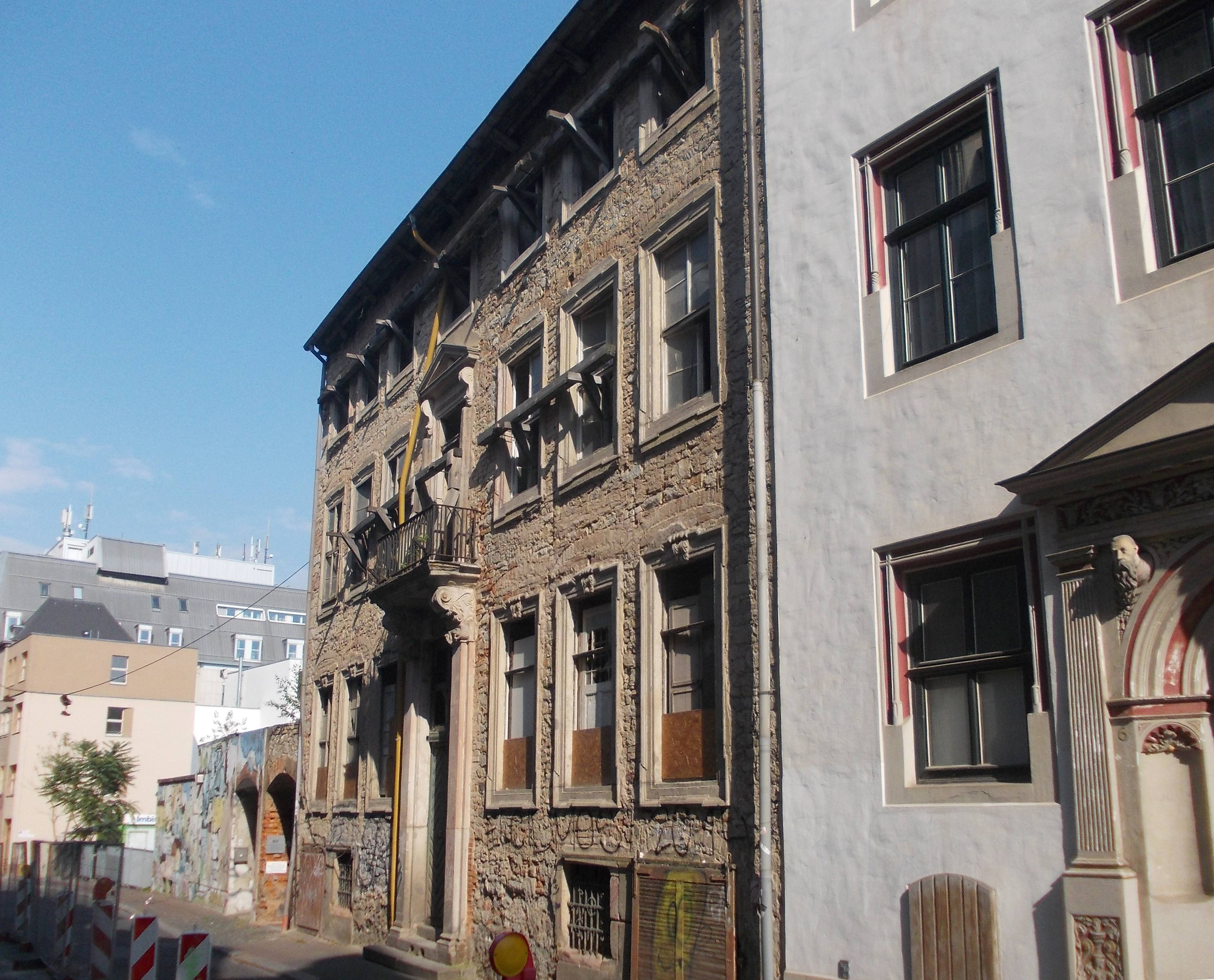 No. 5, Brüderstrasse in Halle (Saale)